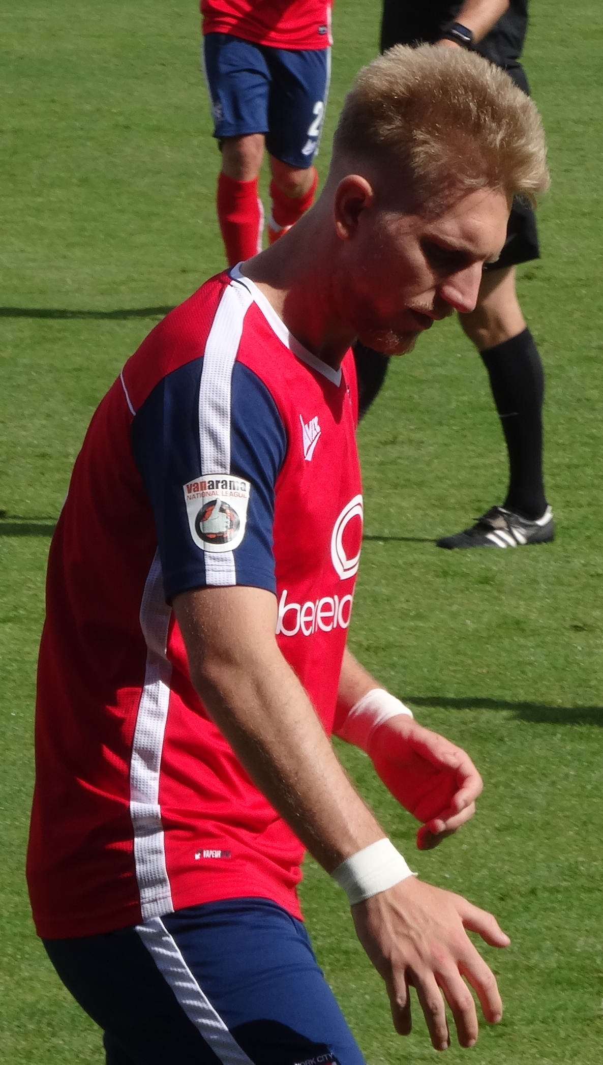 Louis Almond playing for York City against AFC Telford United at Bootham Crescent, York on 5 August 2017